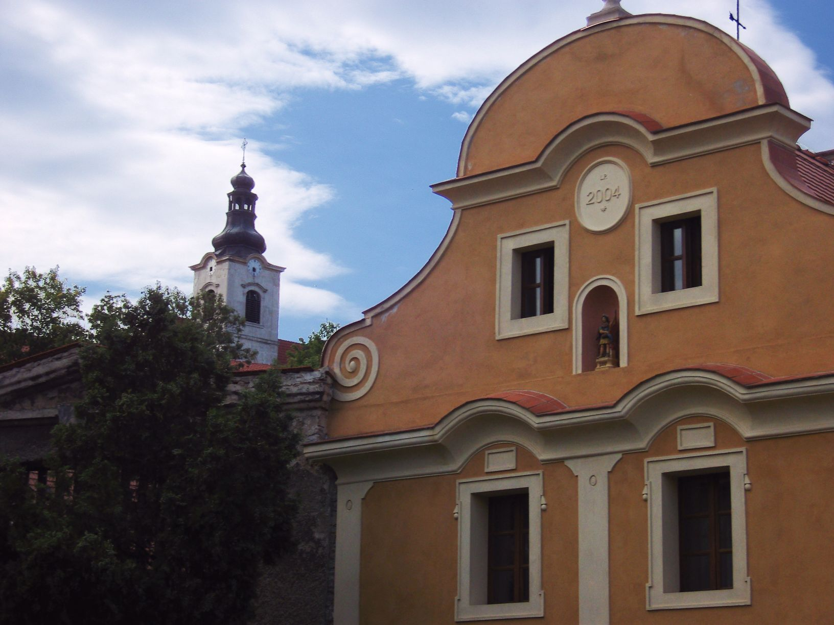 Smolnice, Louny District, Ústí nad Labem Region, the Czech Republic. A house No 4 and a church tower.